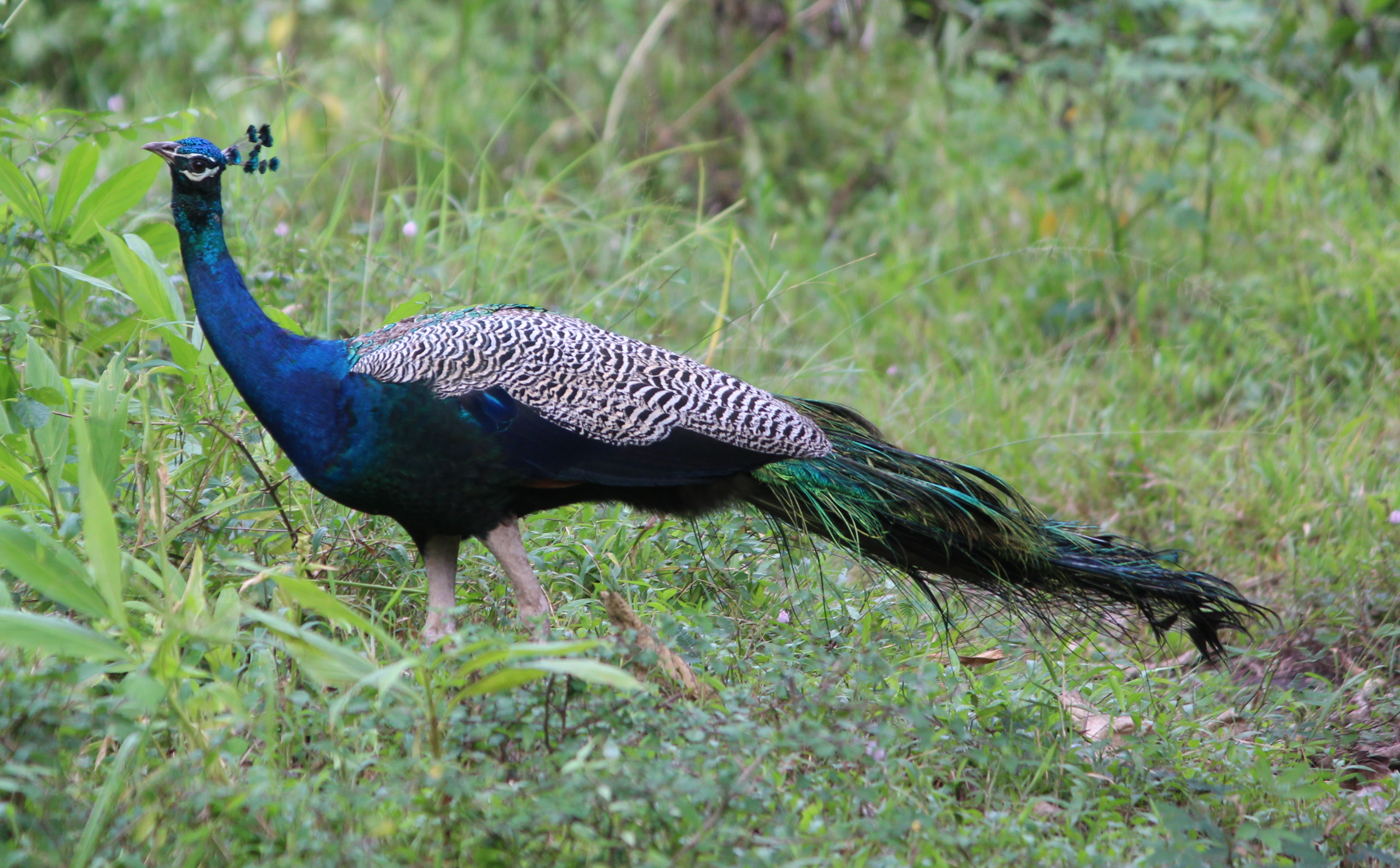 Indian peacock (Pavo cristatus) in Tholpetty Wildlife Sanctuary, Wayanad.